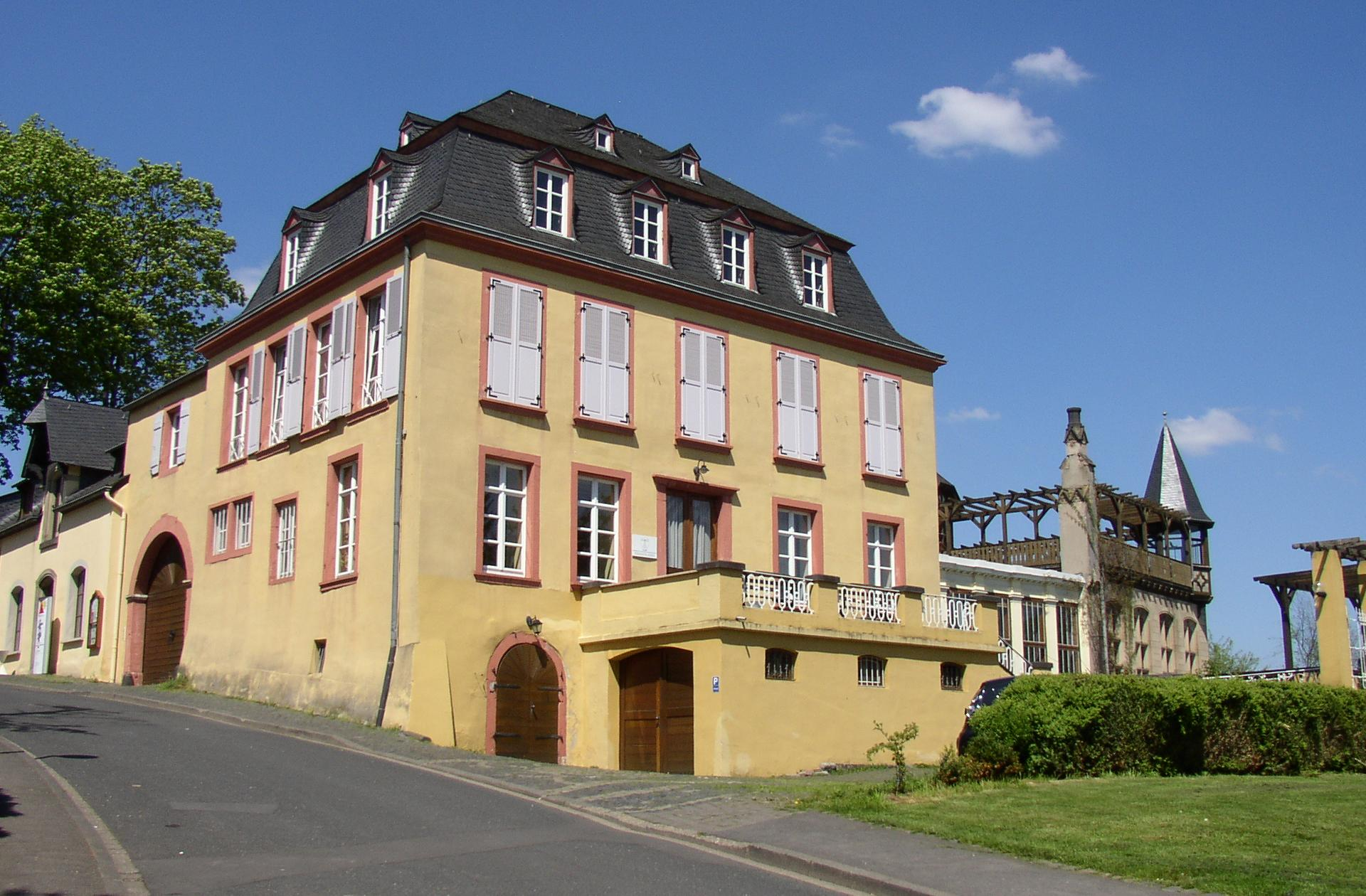 Tithe building in Sinzig in Rhineland-Palatinate, Germany